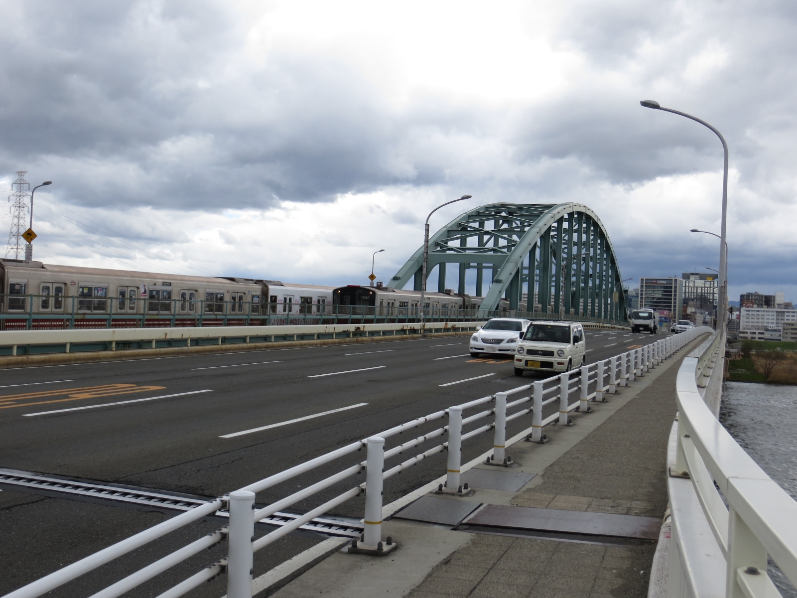 Shin Yodogawa Ohashi, Bridge, Osaka.